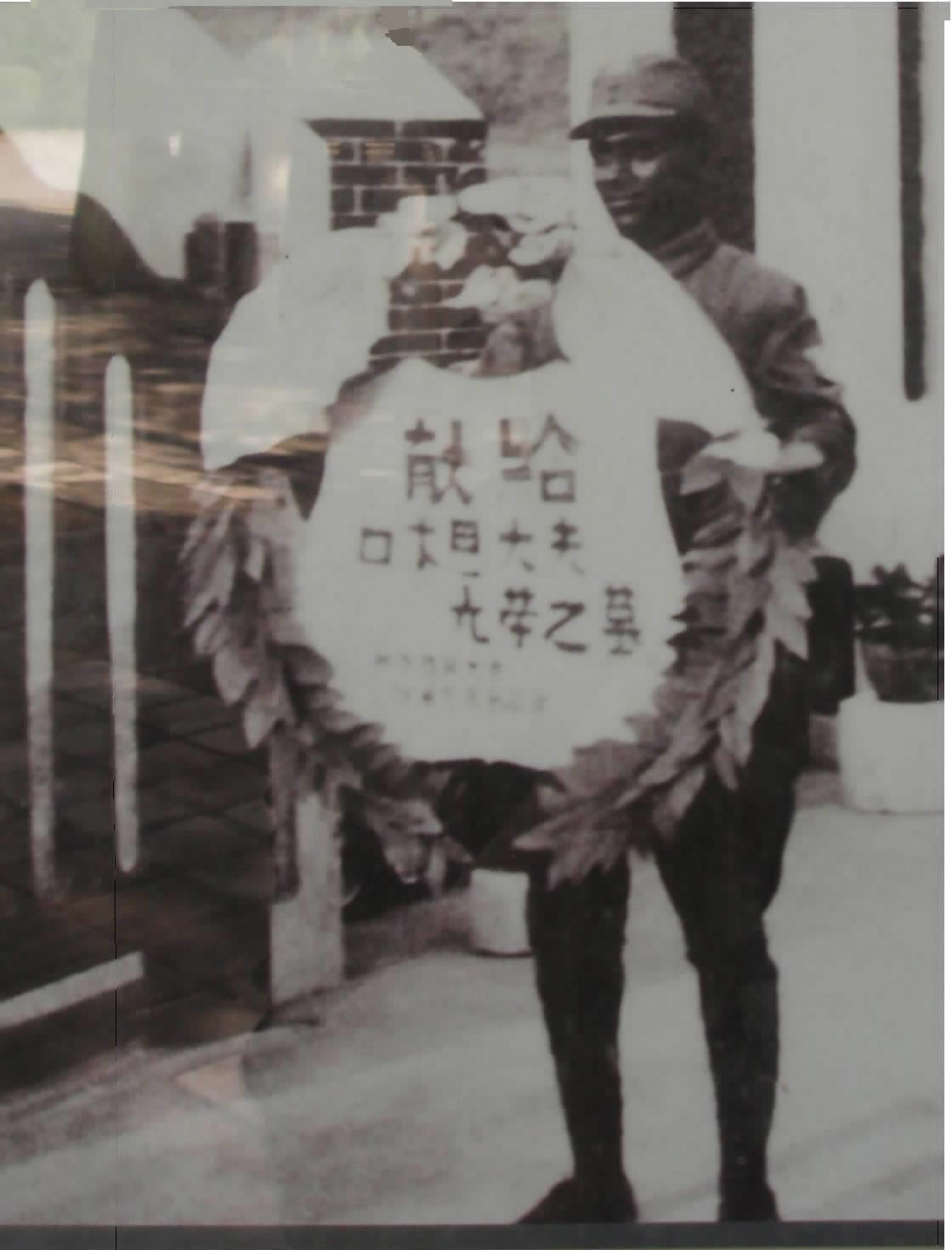 Dwarkanath Kotnis was laying a wreath to memorialize Dr. Norman Bethune